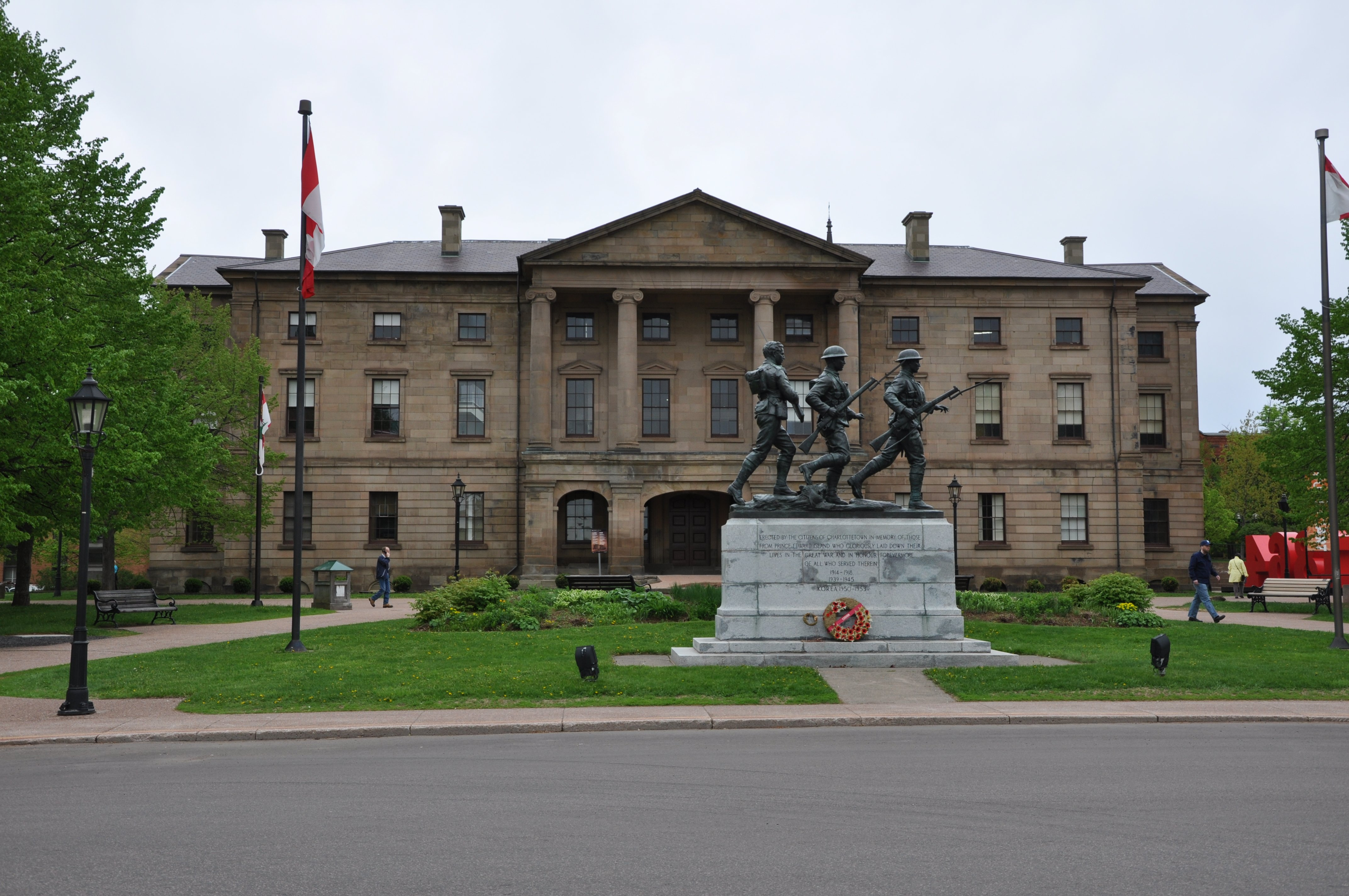 Rear of Province House , Charlottetown, PEI